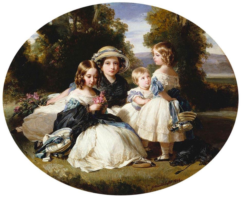 Princesses Alice, Victoria, Louise and Helena